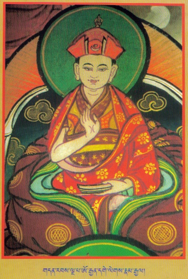 The Fifth Gangteng, Orgyen Gelek Namgyel b.1792 - d.1840